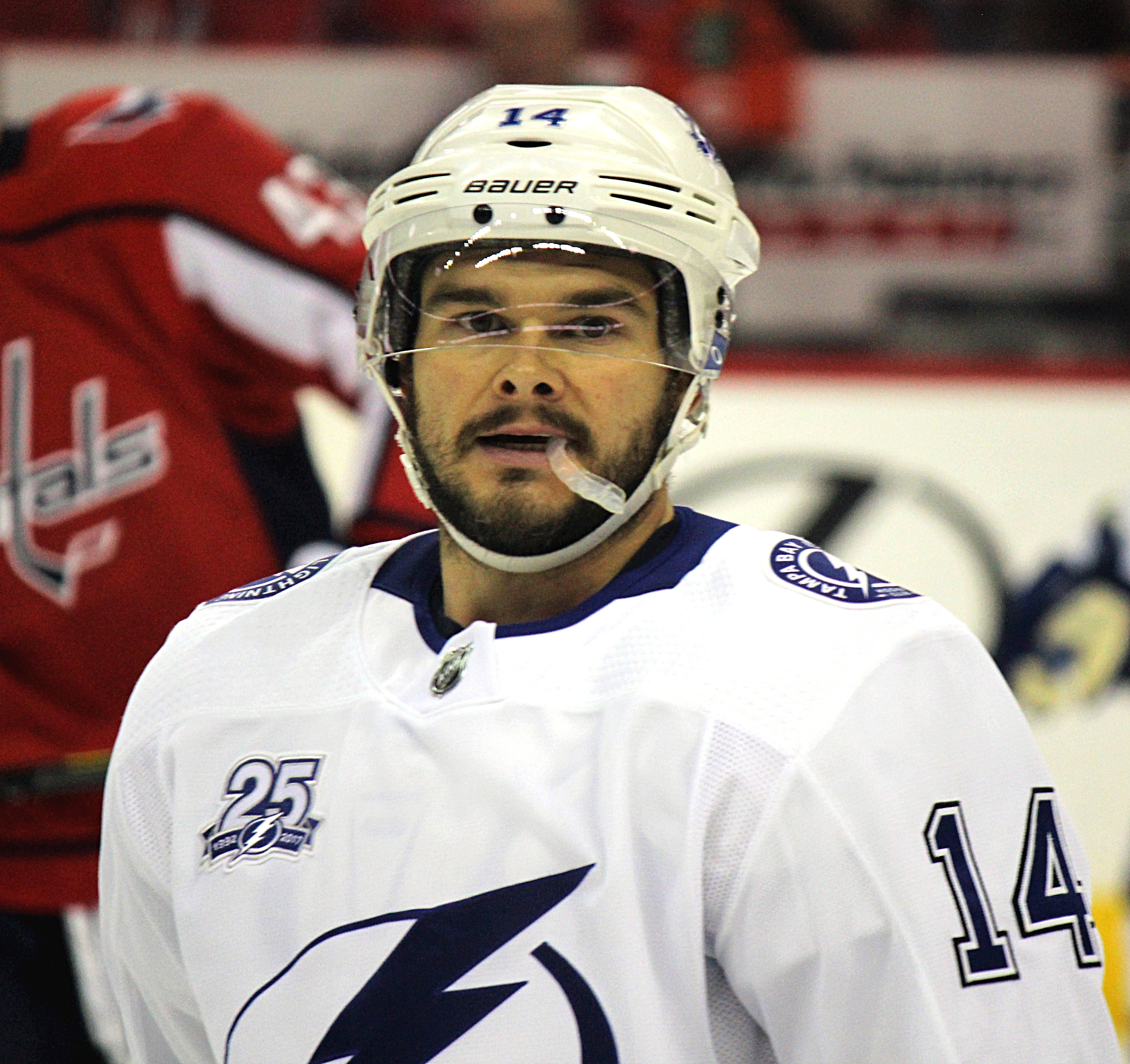 Tampa Bay Lightning forward Chris Kunitz during game 5 of the 2017 Eastern Conference Finals against the Washington Capitals, May 21, 2018, at Capital One Arena in Washington, D.C.